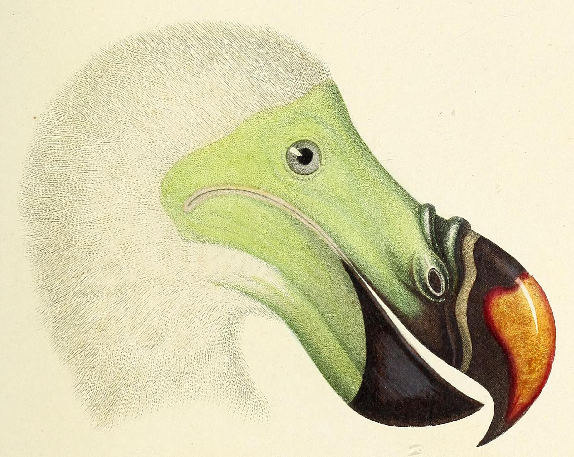 Title: Atlas de Zoologie, ou collection de figures d'Animaux nouveaux, ou peu connus ... avec une explication Year: 1844 (1840s) Authors: Gervais, Francois Louis Paul, 1816-1879 Publisher: Paris Text Appearing After Image: DRONTE de llle Maurice.